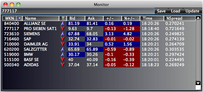 TraderStar's screenshot - "Monitor"